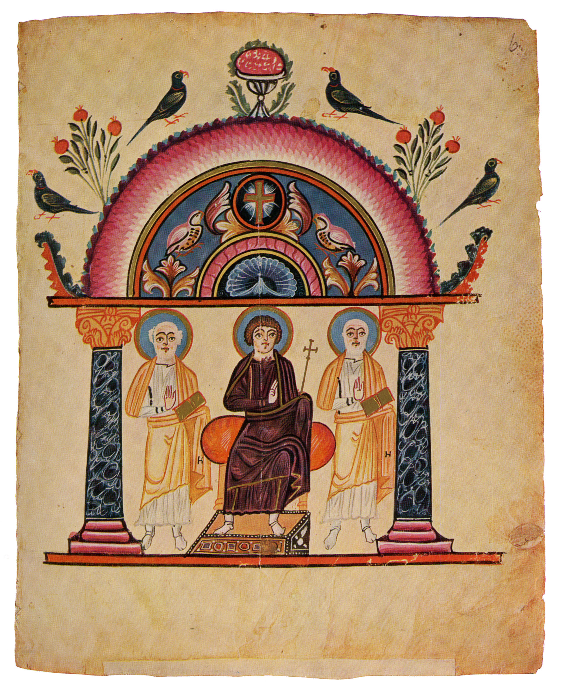 Christ on throne from Etchmiadzin gospel (989)